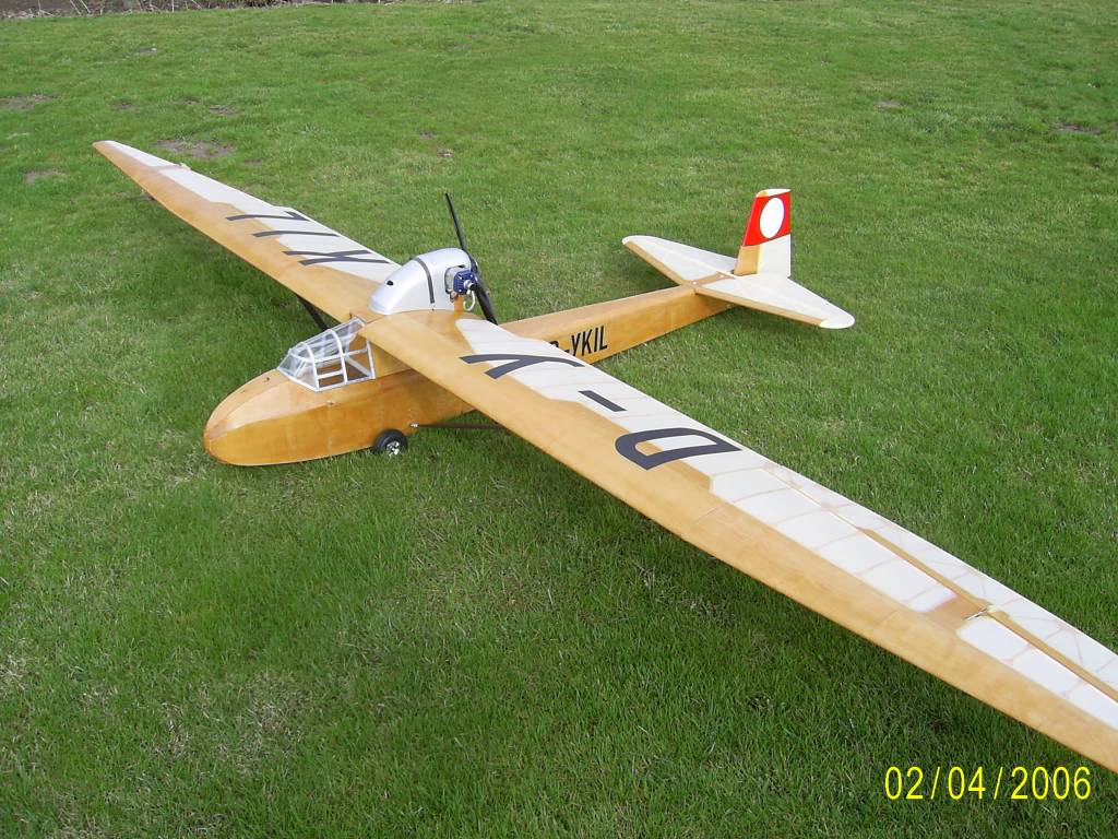 D-YKIL variant of Grunay Baby (model aircraft)